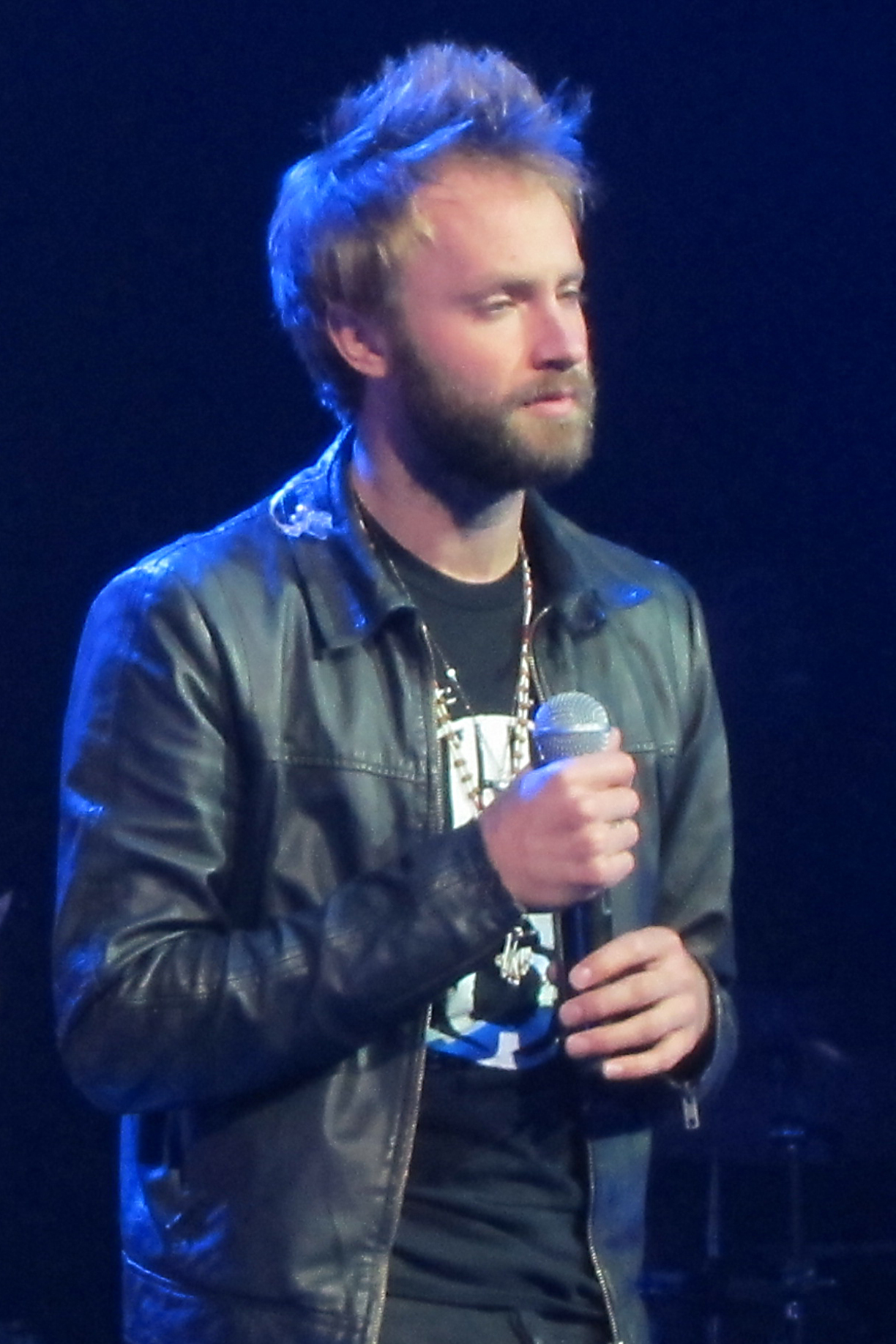 Paul McDonald performing.